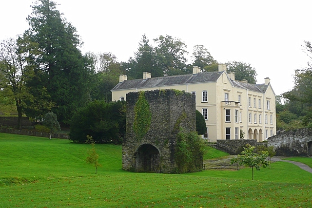 Aberglasney House Through the gate, from the road to the offices. If you just want a view, there's no need to go in.